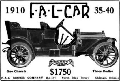 Image is an ad from Motor Age magazine from the Google Books digital repository